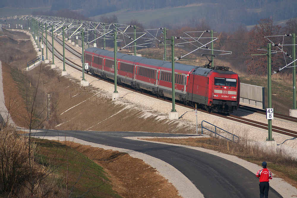 DB class 101 on the Nuremberg-Munich high-speed railway line